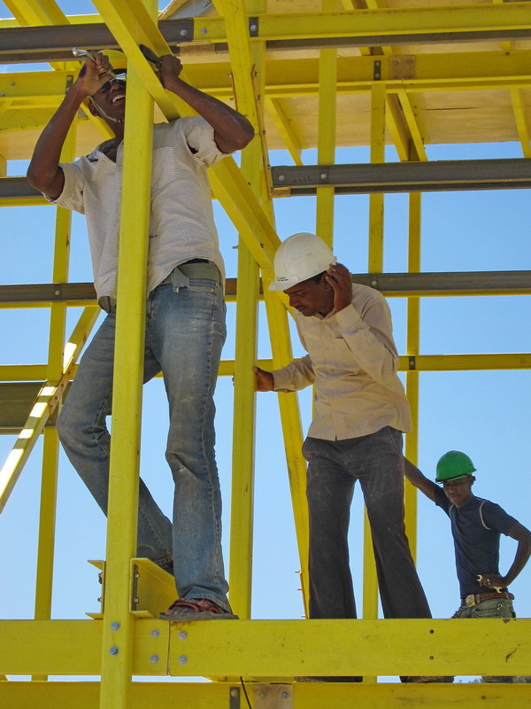 Workers at a geothermal power plant in Olkaria, Kenya